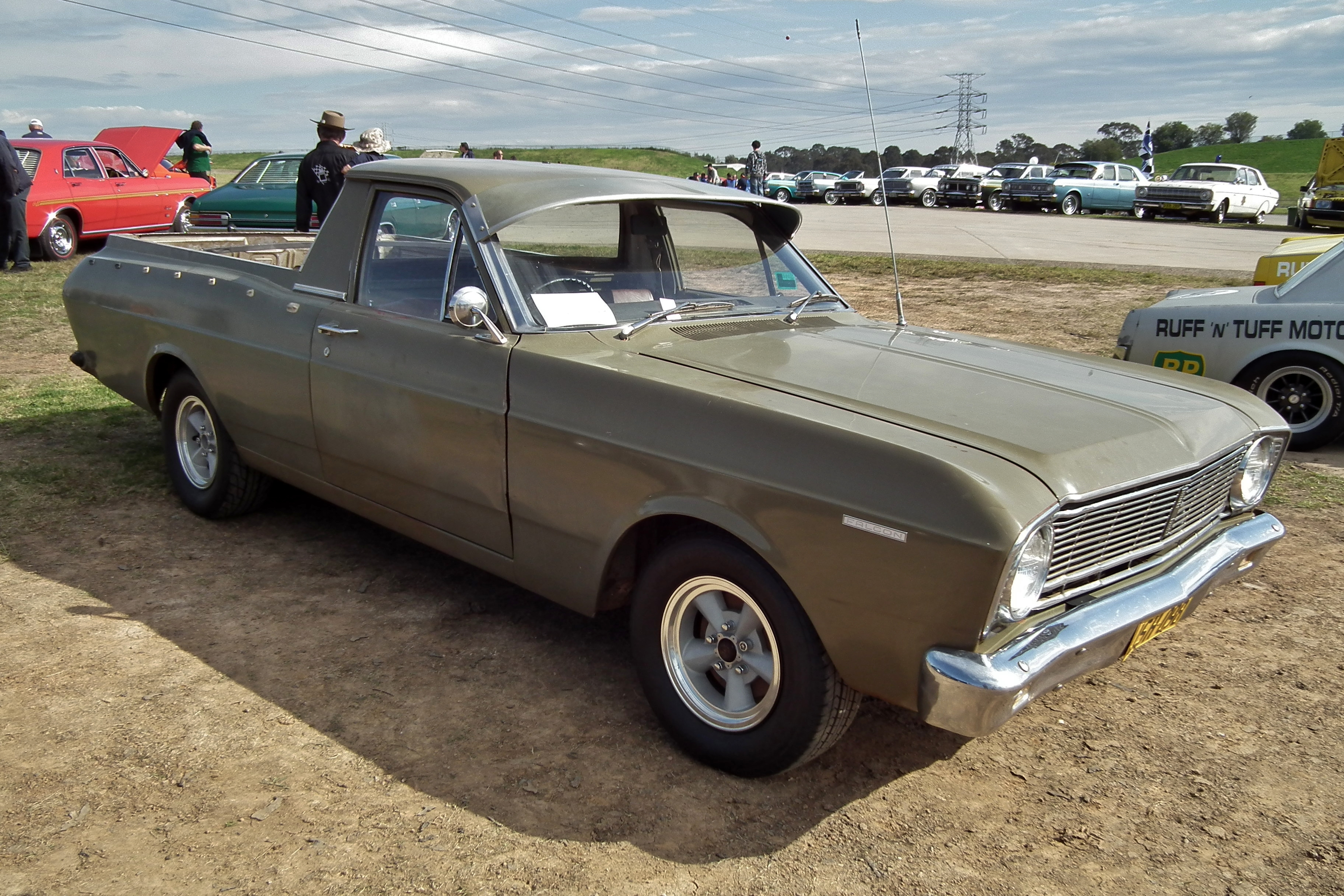 1968 Ford XT Falcon utility. Formerly used by the Australian Army. Taken at the 2011 New South Wales All Ford Day, held at Eastern Creek Raceway.